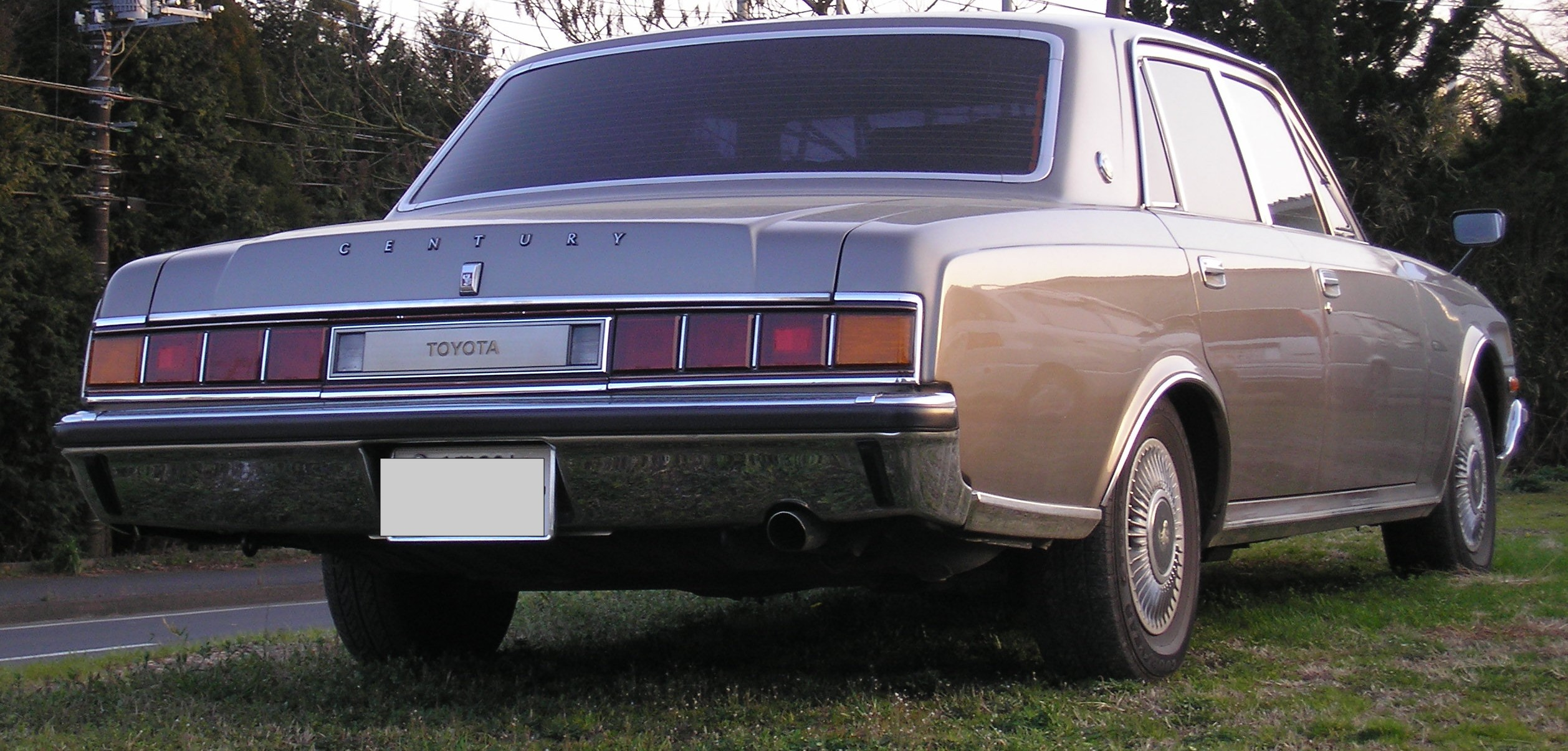 Toyota Century, photographed in Chiba, Japan